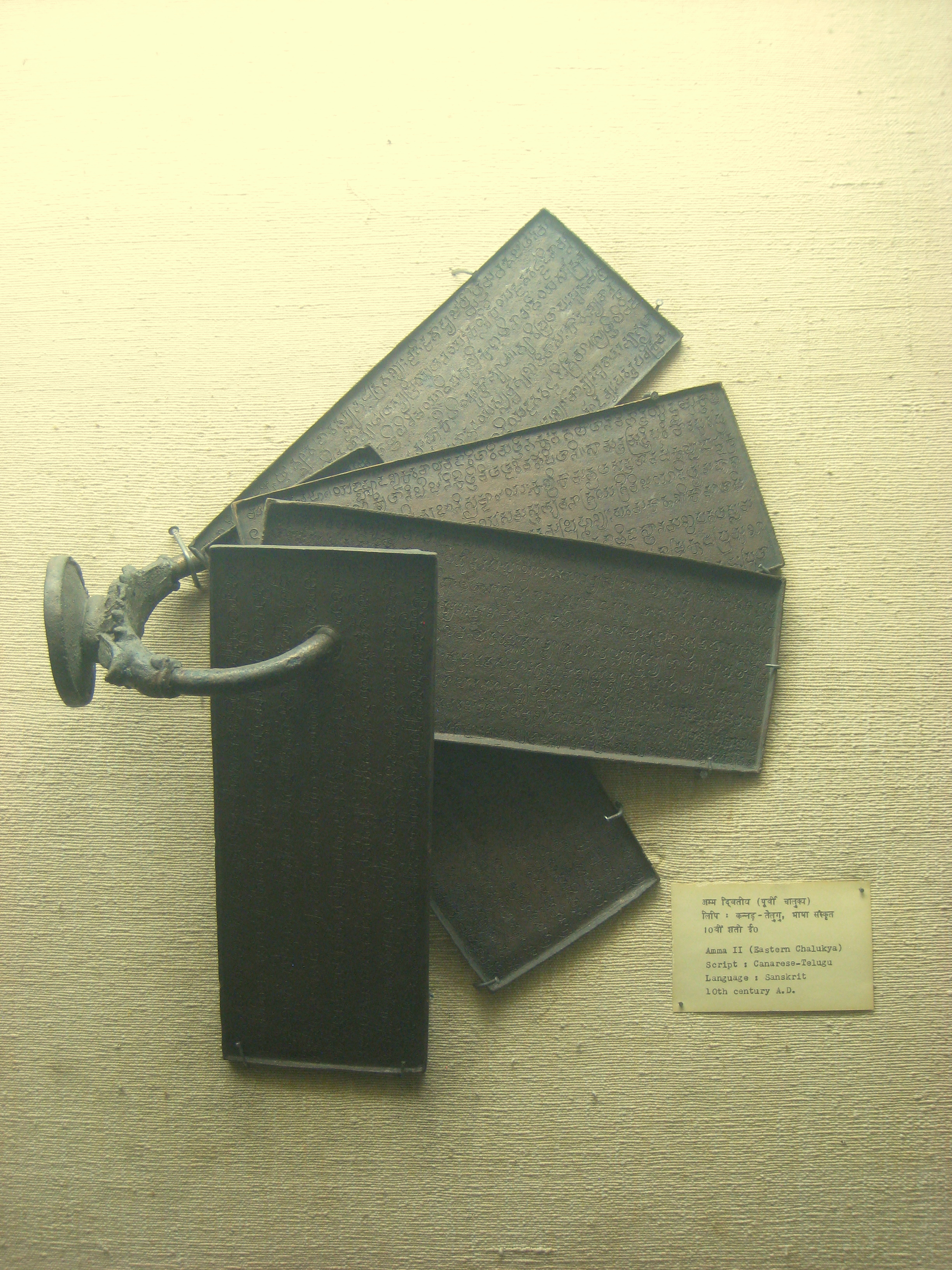 Amma II (Eastern Chalukya), Sanskrit language written in Canarese-Telugu script, 10th century AD. Copper plates, exhibited in the National Museum, New Delhi, India.